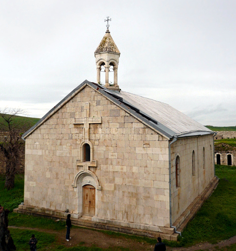 Amaras